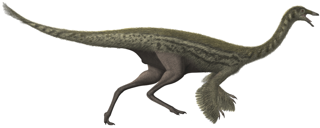 Gallimimus bullatus restoration. • Based Proportionally on Scott Hartman's skeletal drawing. [1] • Three specimens of Ornithomimus preserve evidence of feathers, including evidence of pennaceous feathers on the arms. [1] This image goes under the assumption that Gallimimus were also covered in feathers. • The colours and/or patterns, as with nearly all reconstructions of prehistoric creatures, are speculative. References ↑ (2012). "Feathered Non-Avian Dinosaurs from North America Provide Insight into Wing Origins". Science 338 (6106): 510. NOTE: I often update my images. If you want to have any of my images on a website, please (if possible) don’t host/save it to the website server. I’d prefer it if the image's Wikimedia URL is used. This means that if I update an image, it will be updated on the site as well. Thanks.